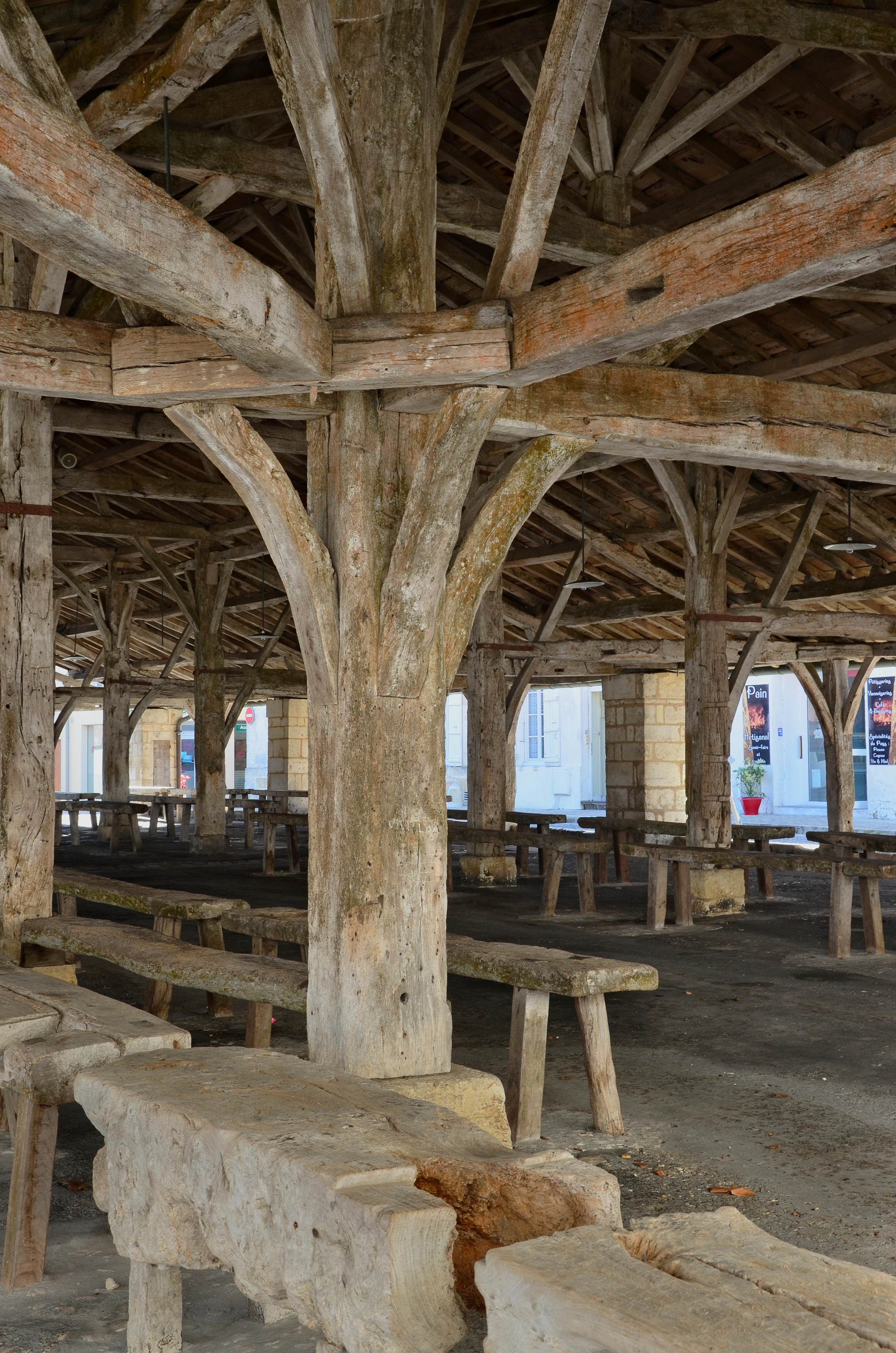 Wood frame of the market hall (details), Cozes, Charente-Maritime, France.